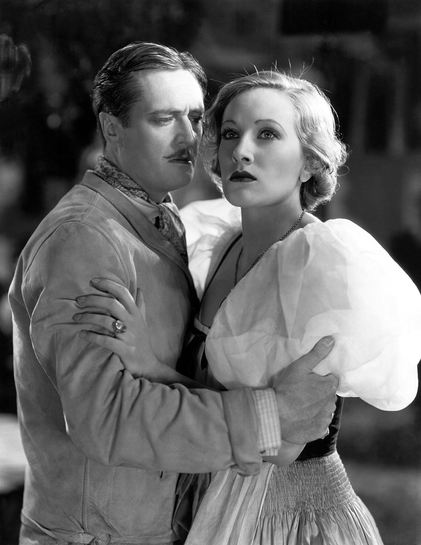 Edmund Lowe and Tala Birell in Let's Fall in Love (1933) - publicity still